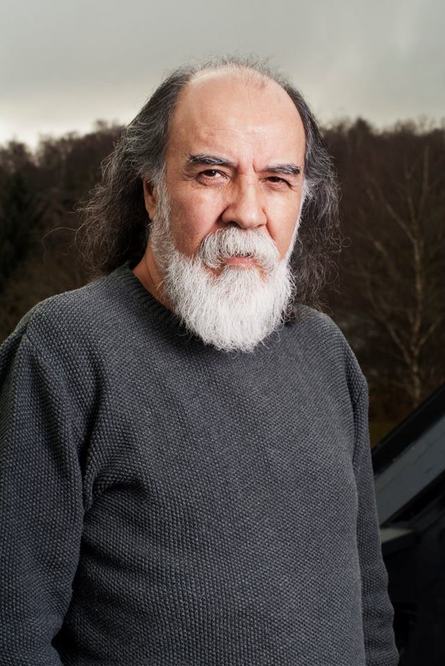 Portrait, Stavanger 2012